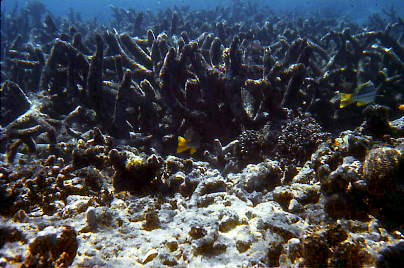 The photograph shows the poor condition of coral after the crown-of-thorns prredation